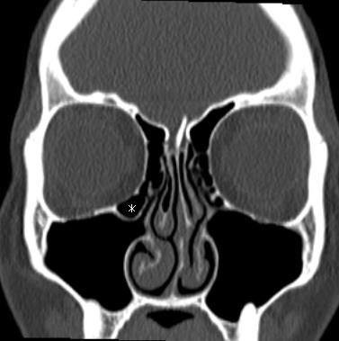 Haller's cell (asterisk) in computed tomography